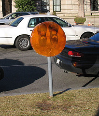 Mark Jenkins installation "meterpops"